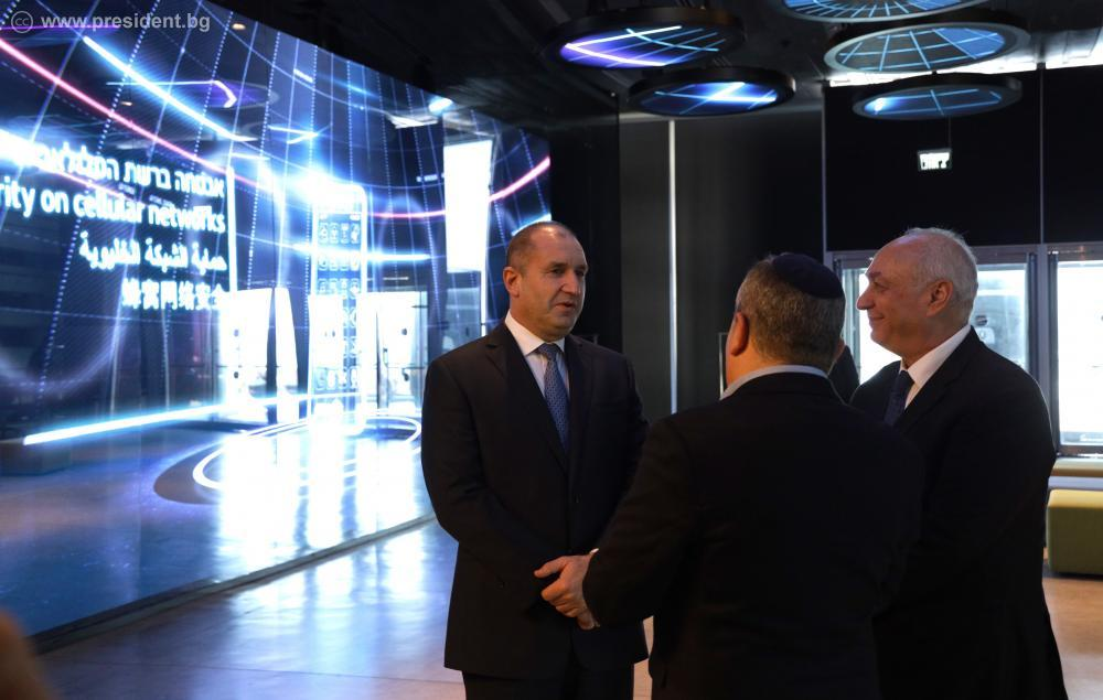 Rumen Radev: Huge Investments are Yet to be Made in the Water Sector in Bulgaria and it is Recommendable that before that the Experience of Other Countries be Studied.